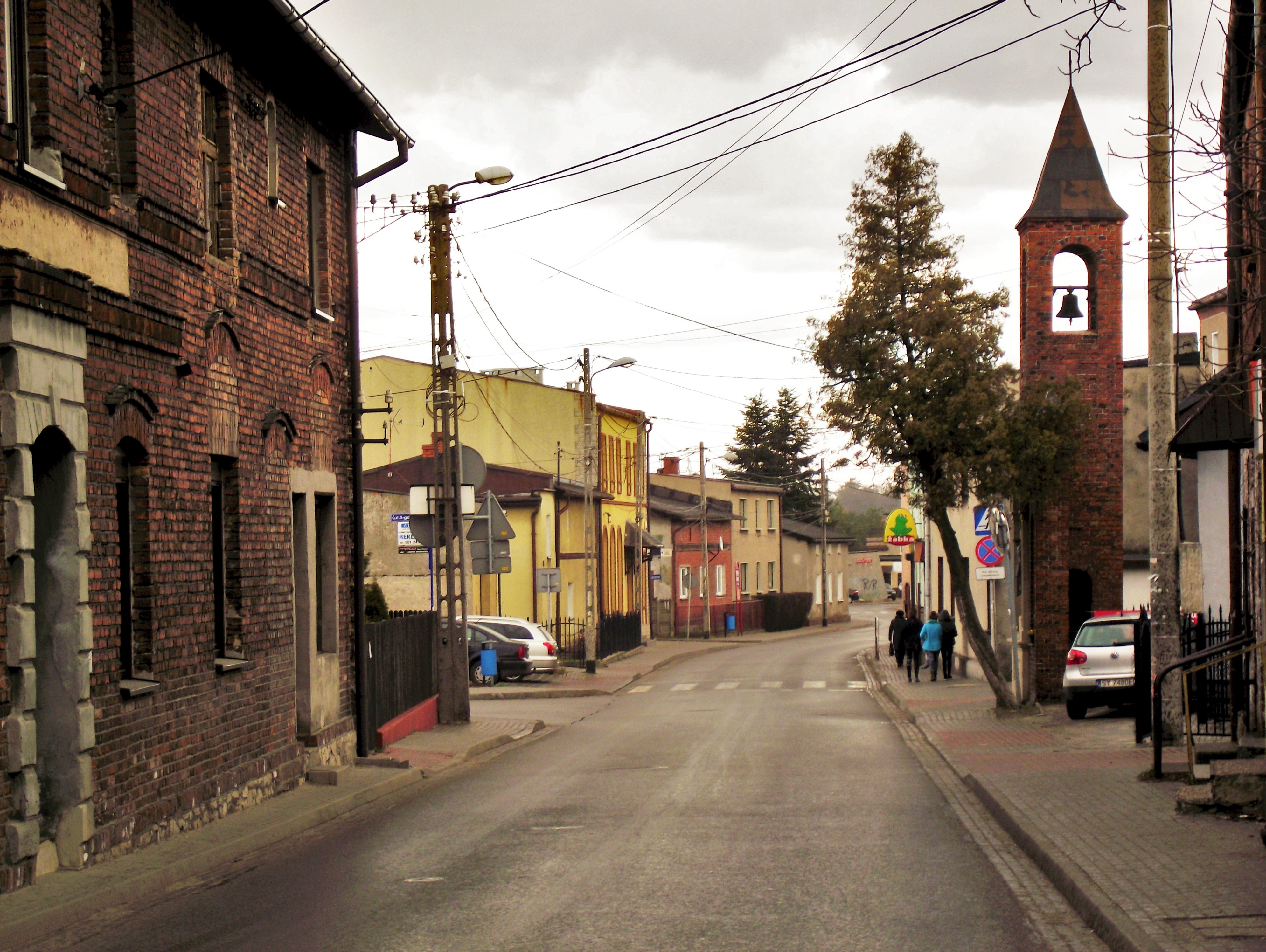 Main Street in Świerklaniec (Neudeck), Upper Silesia.